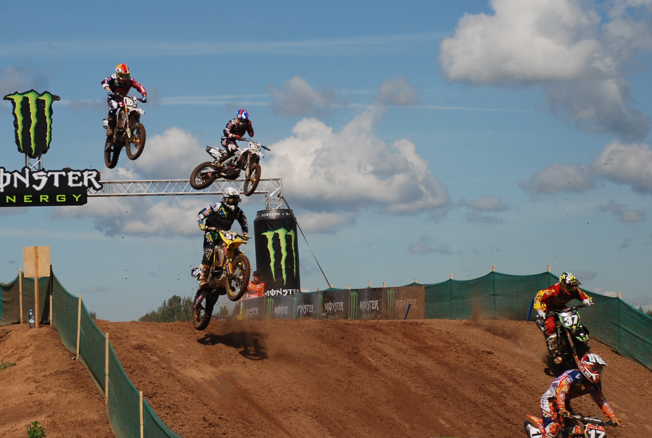 FIM Motocross World Championship 2012 - Russia, Semigorie